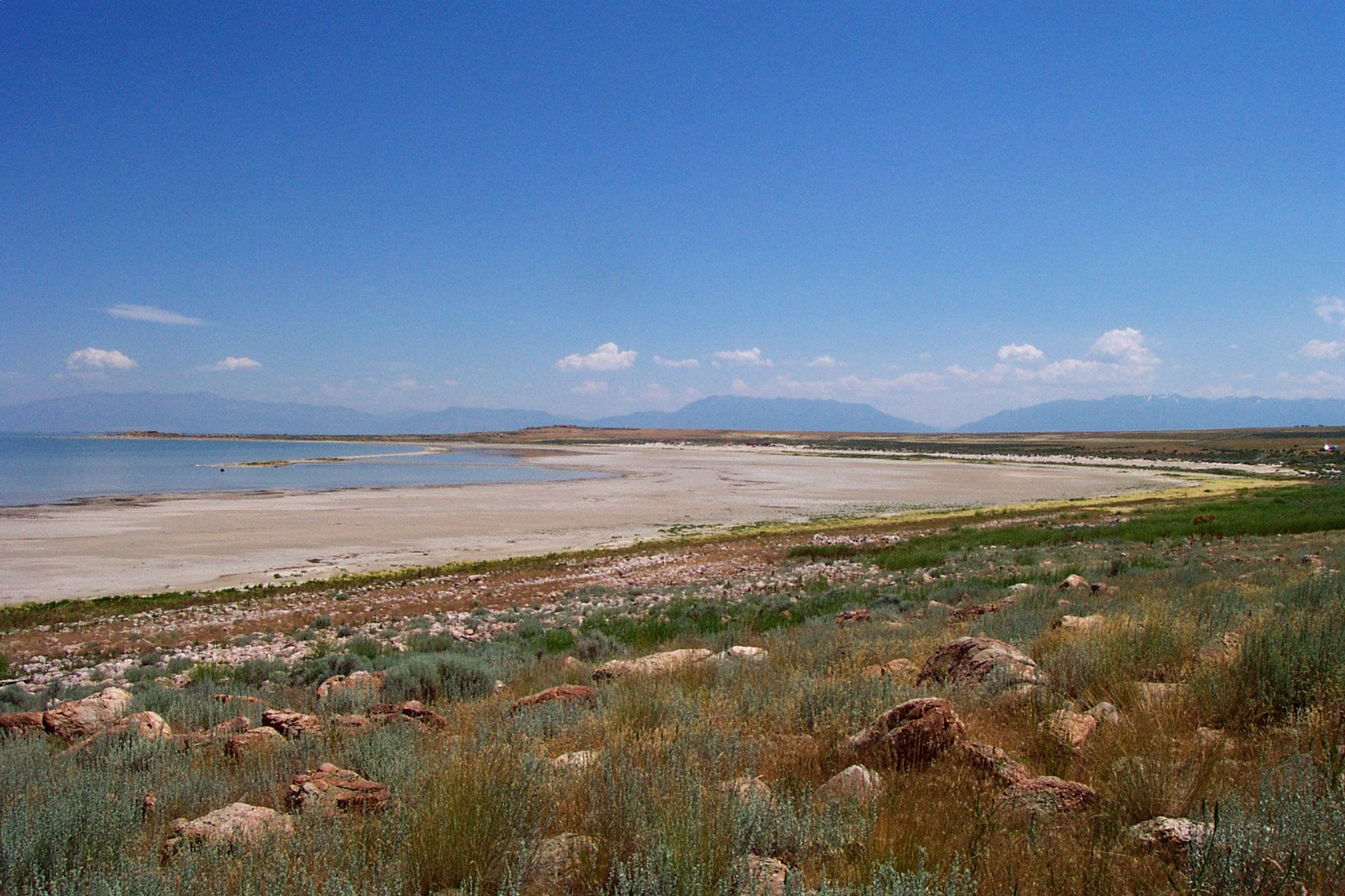 Antelope Island State Park, USA